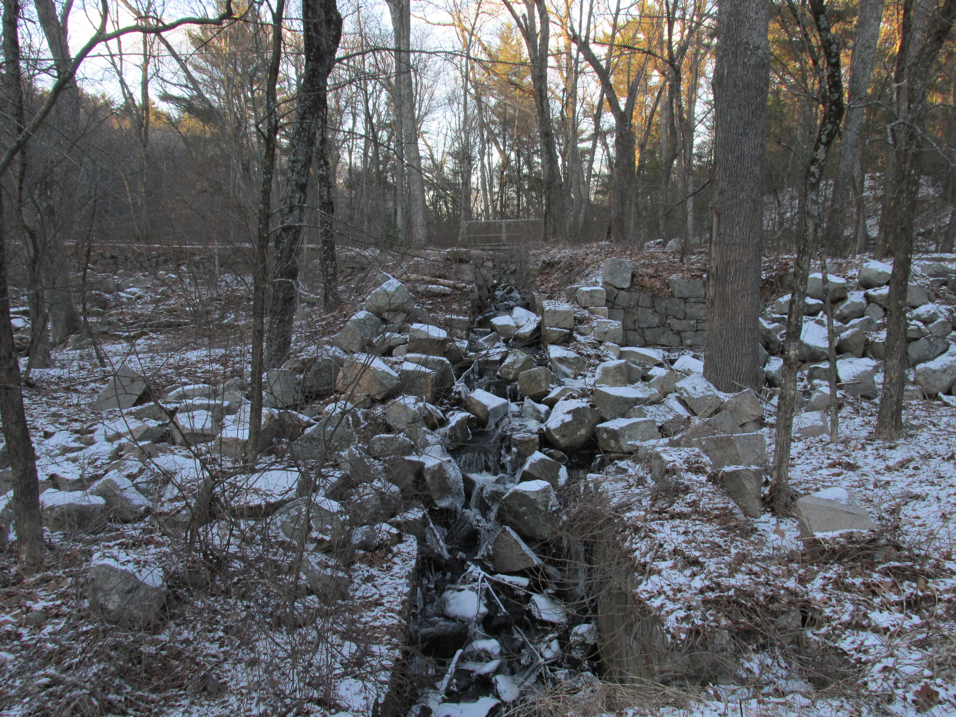 Mill site, Fork Factory Brook, Medfield Massachusetts